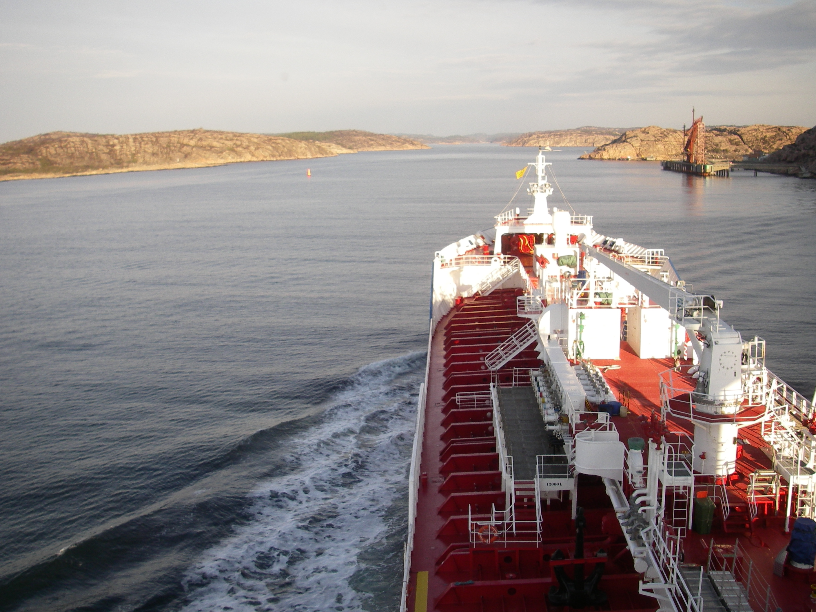 The Bit Oktania heading in through Brofjorden towards the product harbour